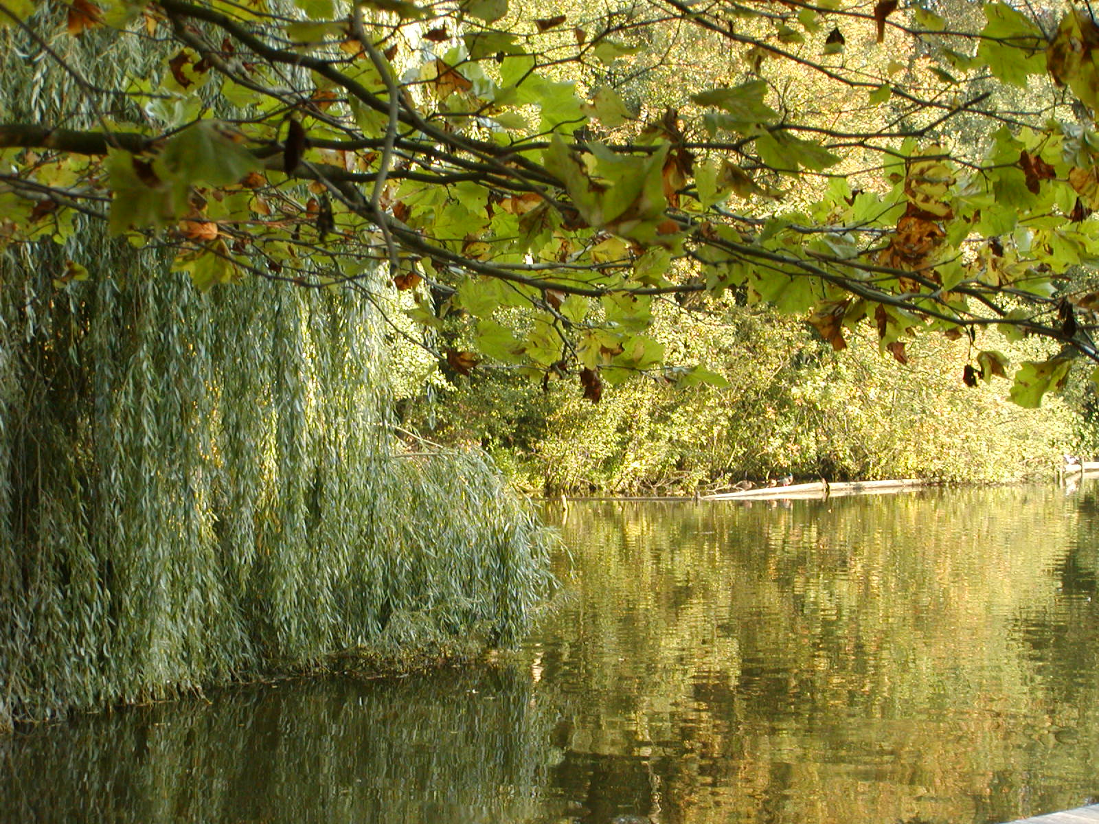 Lake in town of Spenge, District of Herford, North Rhine-Westphalia, Germany.